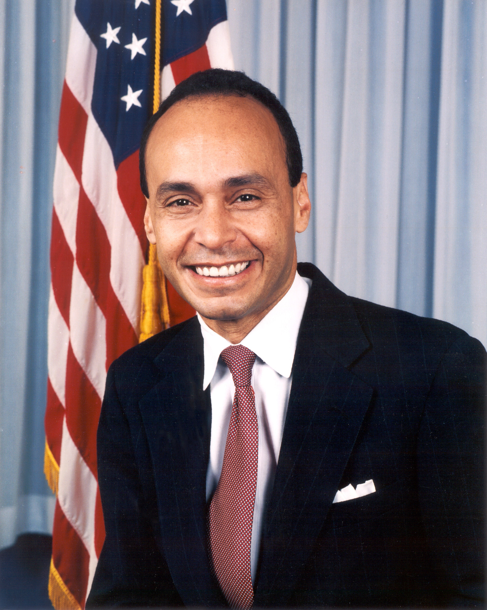 Luis Gutierrez, member of the United States House of Representatives.